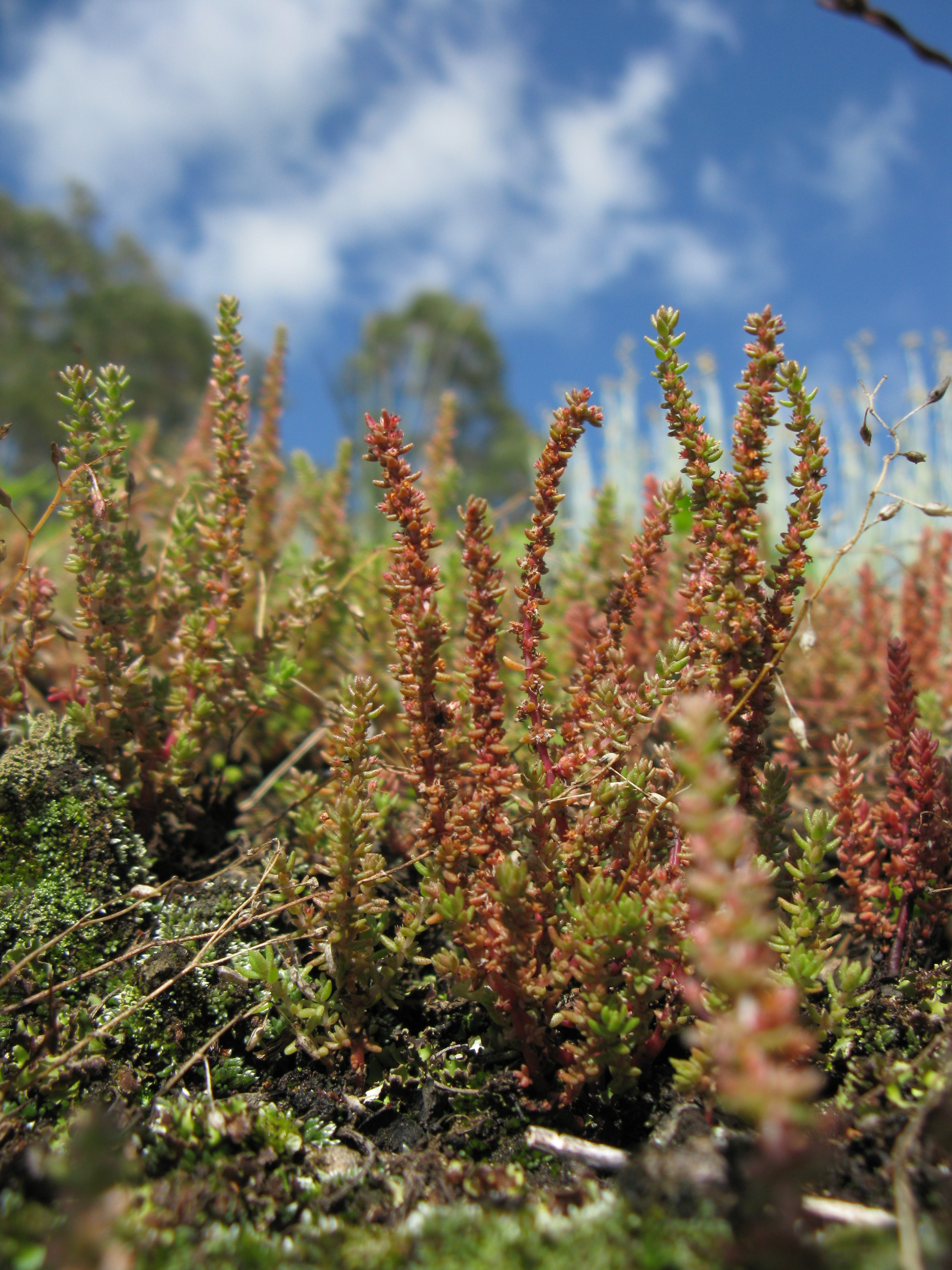 Native, cool-season, annual, succulent herb to 20 cm tall. Leaves are fleshy, grey-brown to reddish, stalkless and 4-10 mm long. Flowerheads are short spikes or panicles of small (1-2 mm long) pale red to yellow flowers borne in the axils of leaf-like bracts. Found where there is little competition. Often grows under intermittently dry and wet conditions (e.g. sandy river flats).